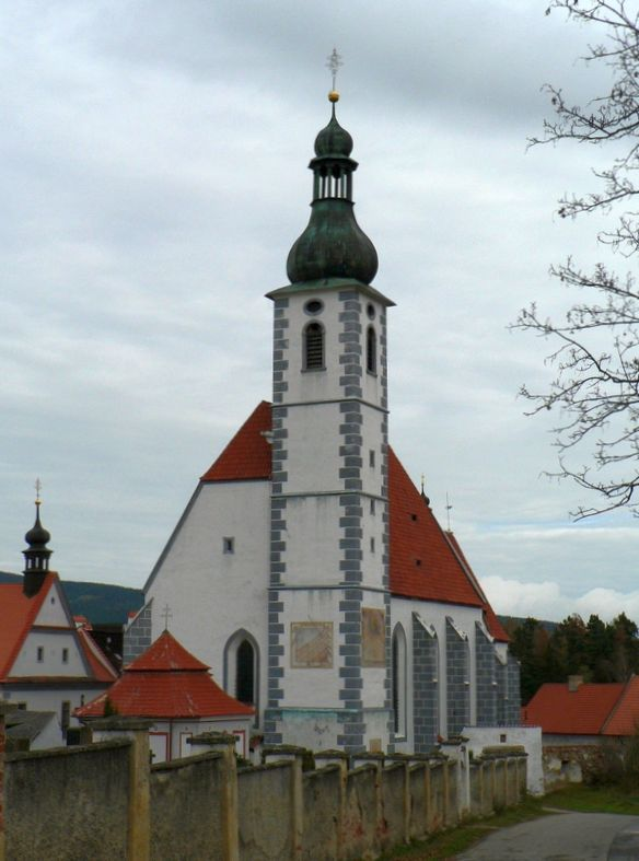 Mary Assumption church in Kájov